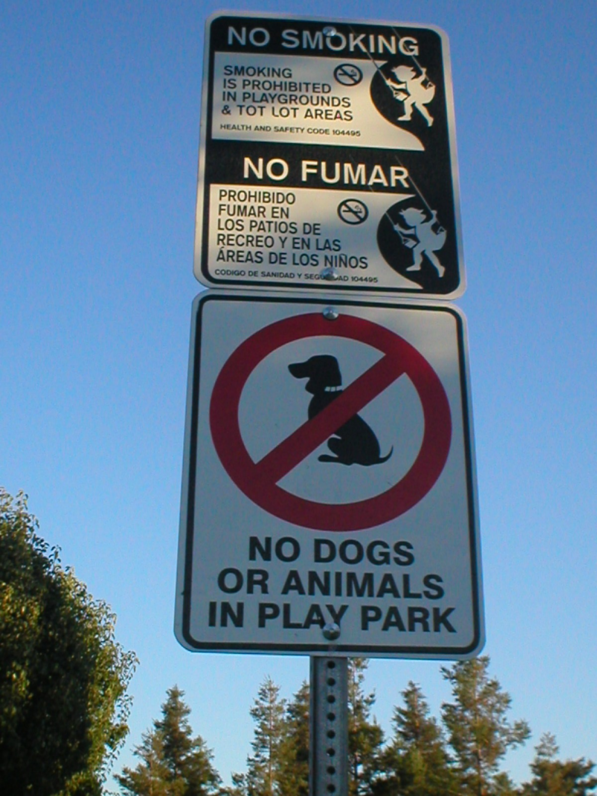 Public park activity warning signs in English and Spanish